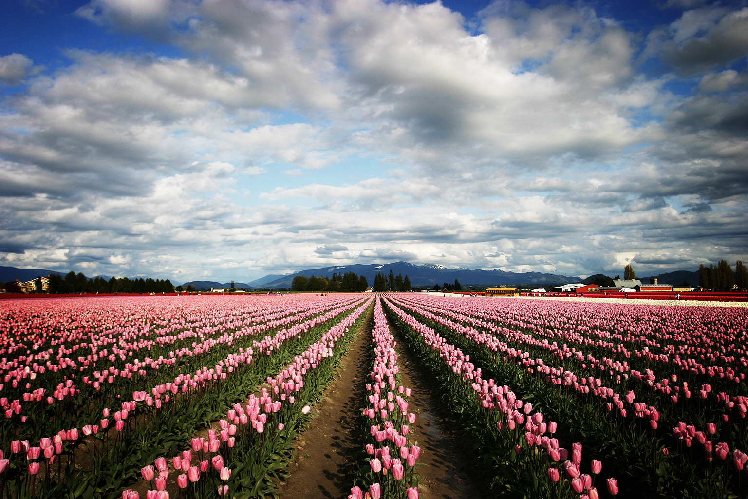 Skagit Valley Tulip Festival